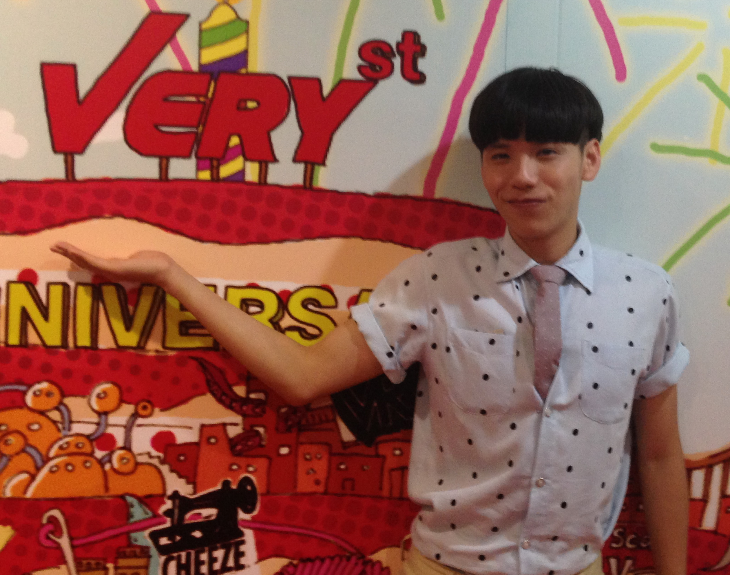 Kacha at VERY TV.